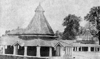 The birth place of Adi Shankara at Kalady in Kerala